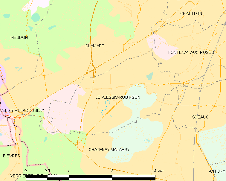 Map of French municipality Le Plessis-Robinson